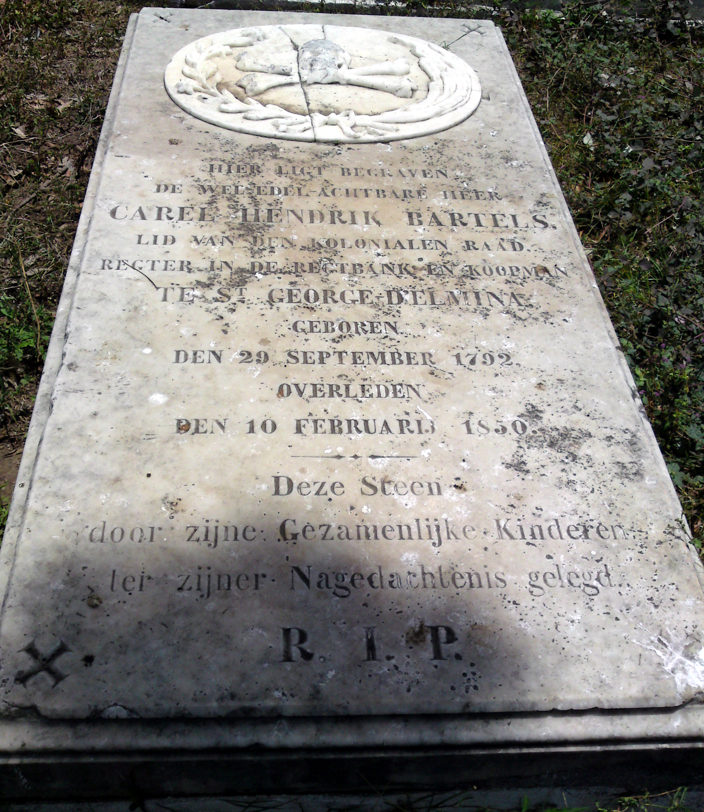 Grave of Carel Hendrik Bartels, a mulatto trader and politician on the Dutch Gold Coast